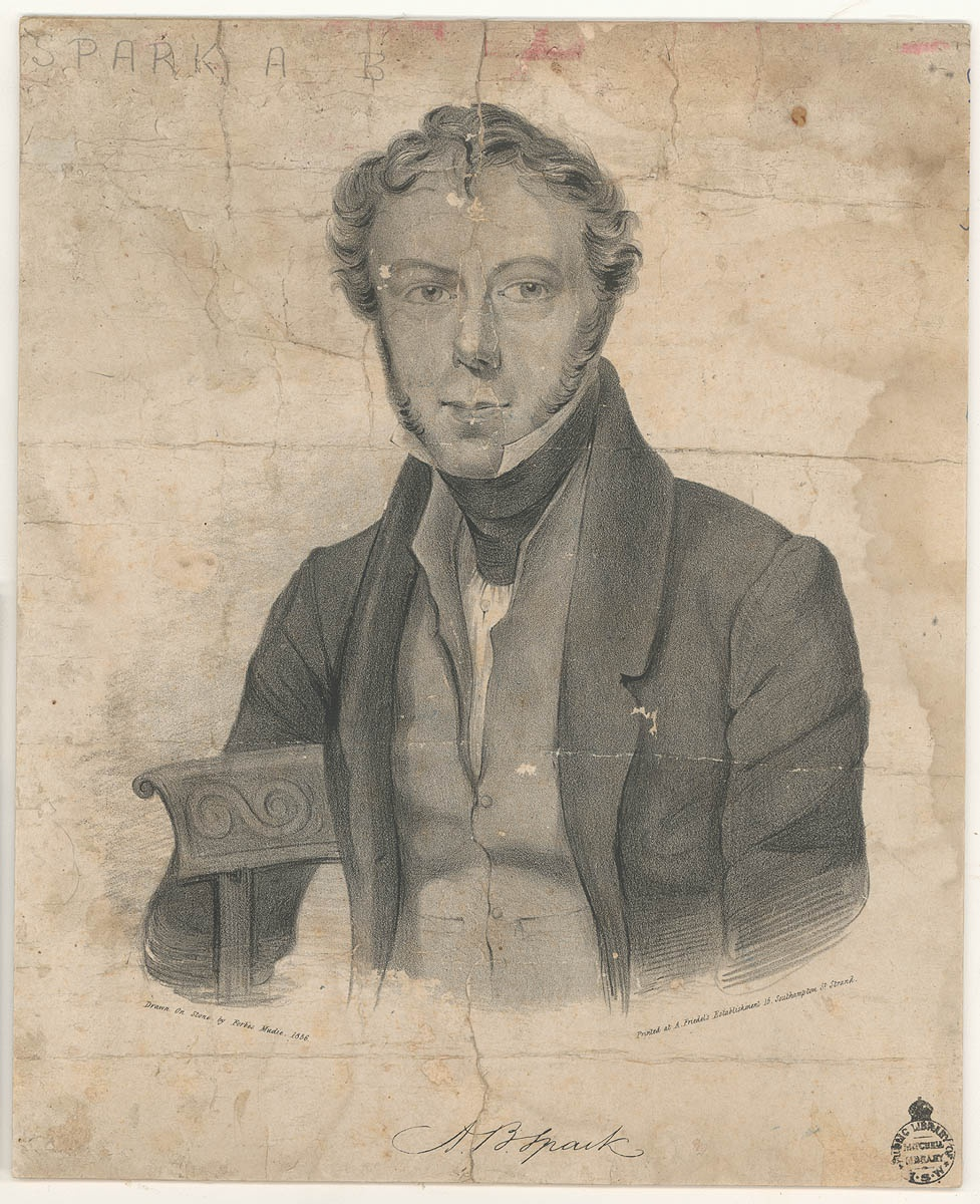 A portrait of Alexander Brodie Spark